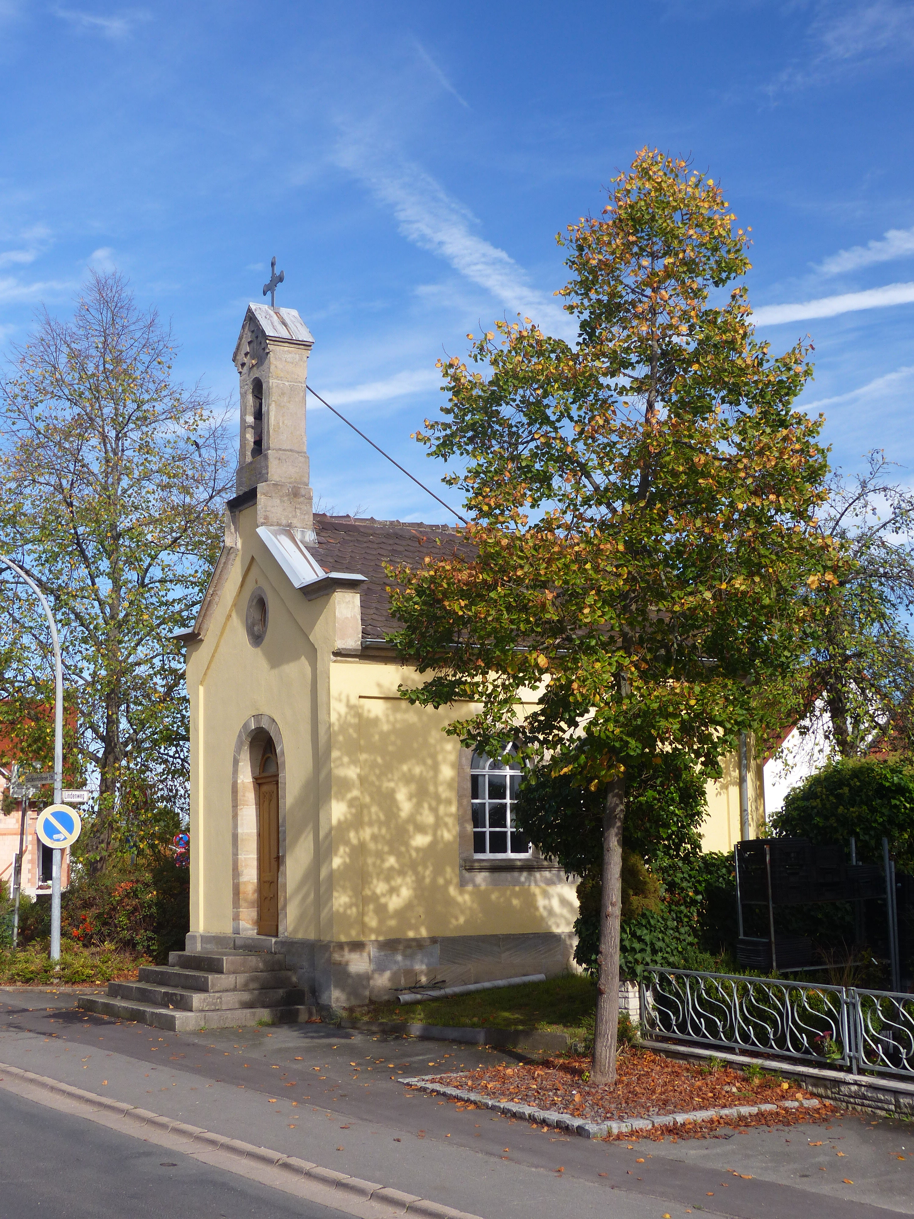 The chapel of the parish village Buckenhofen, a district of the town of Forchheim.